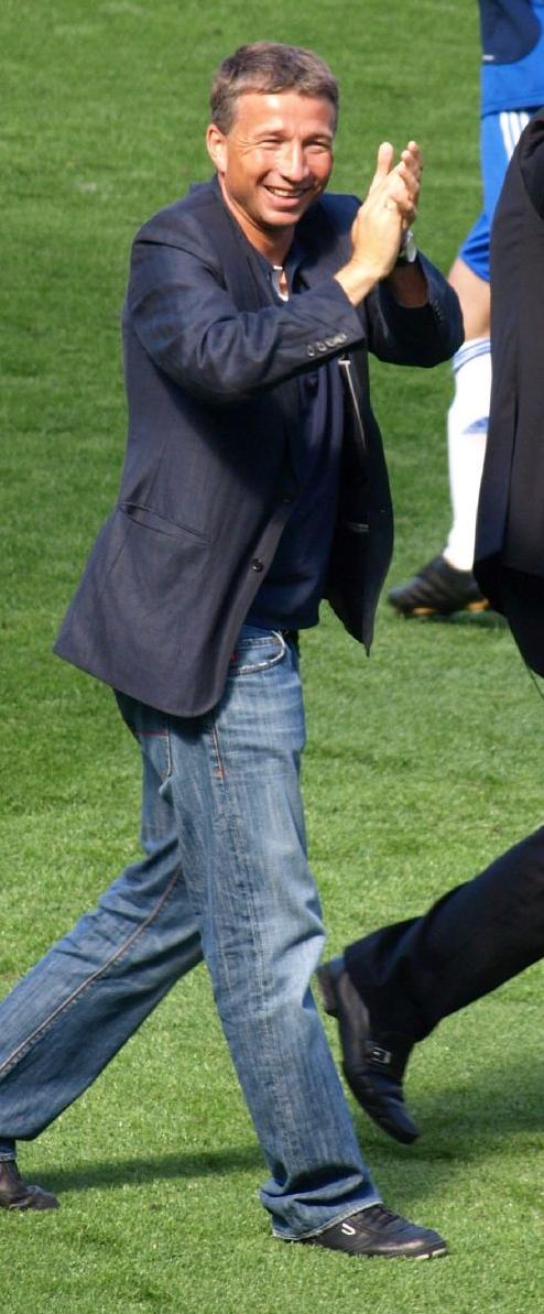 Romanian football (soccer) player Dan Petrescu